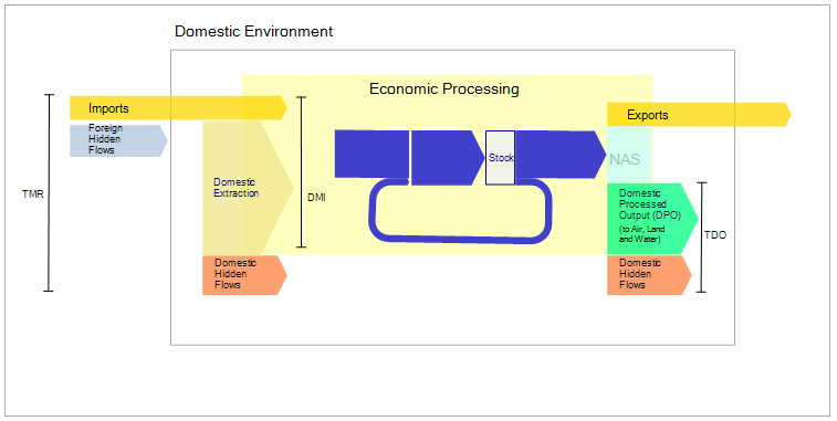 Schematic diagram of the material flows and principal indicators in Material Flow Accounting. This diagram is based on similar diagrams depicting societal or industrial metabolism by Bringezu (e.g. Material Flow Analysis for the European Union and beyond. Implications for science and policy. Presentation held at the inaugural ISIE conference on Nov 13, 2001 at Nordwijkerhood, Drawn by shangri67 with the software e!Sankey.